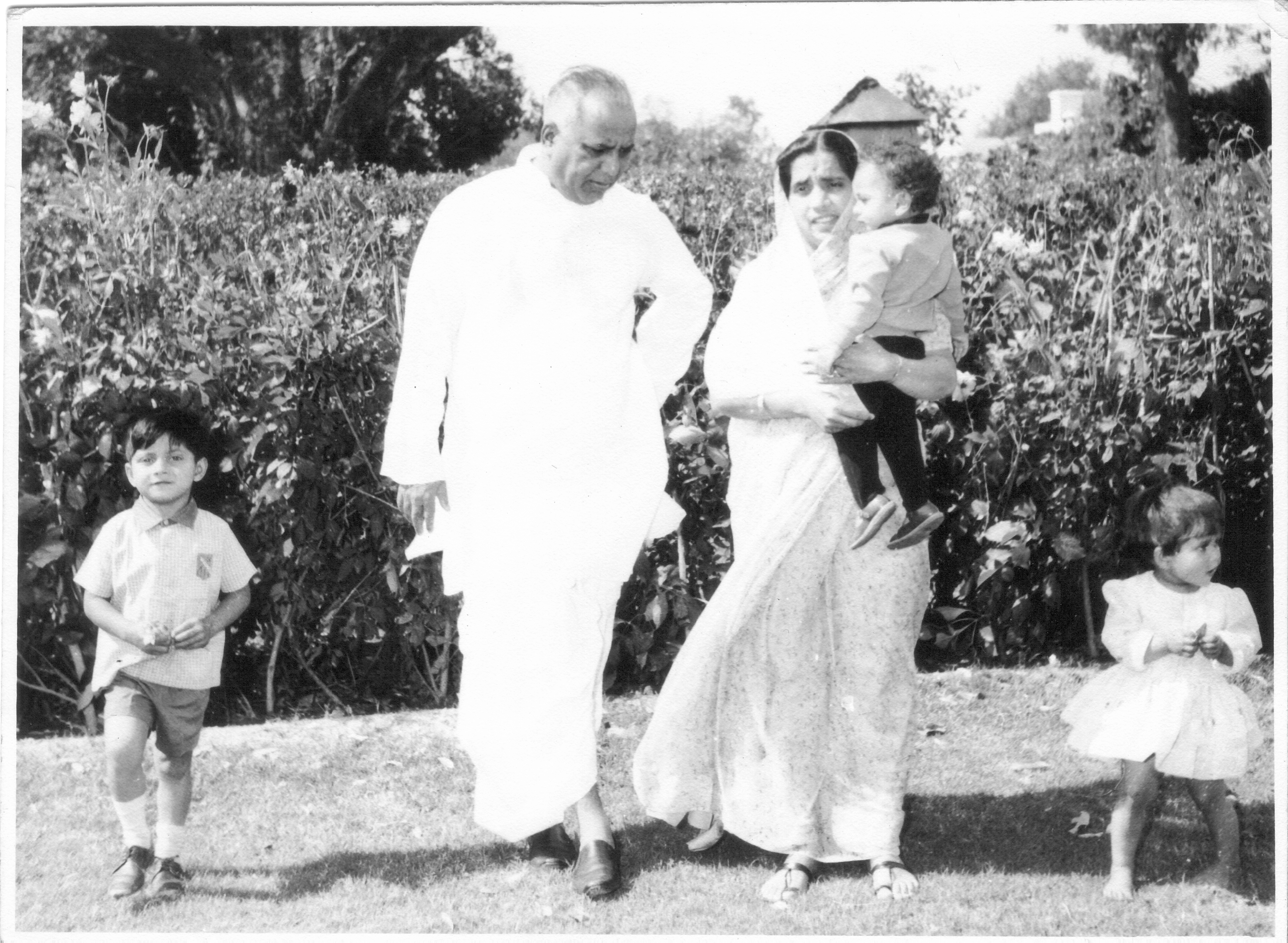 Late Deputy Prime Minister of India Y B Chavan.